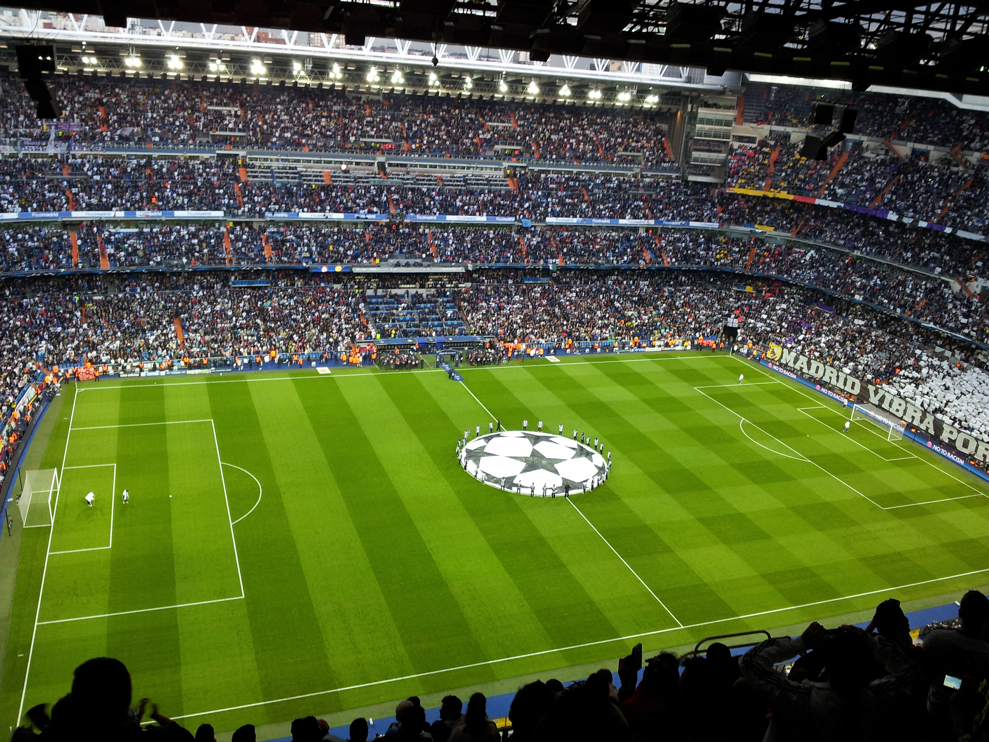 Santiago Bernabéu Stadium, Real Madrid - Borussia Dortmund, UEFA Champions League semi final, 2012/2013